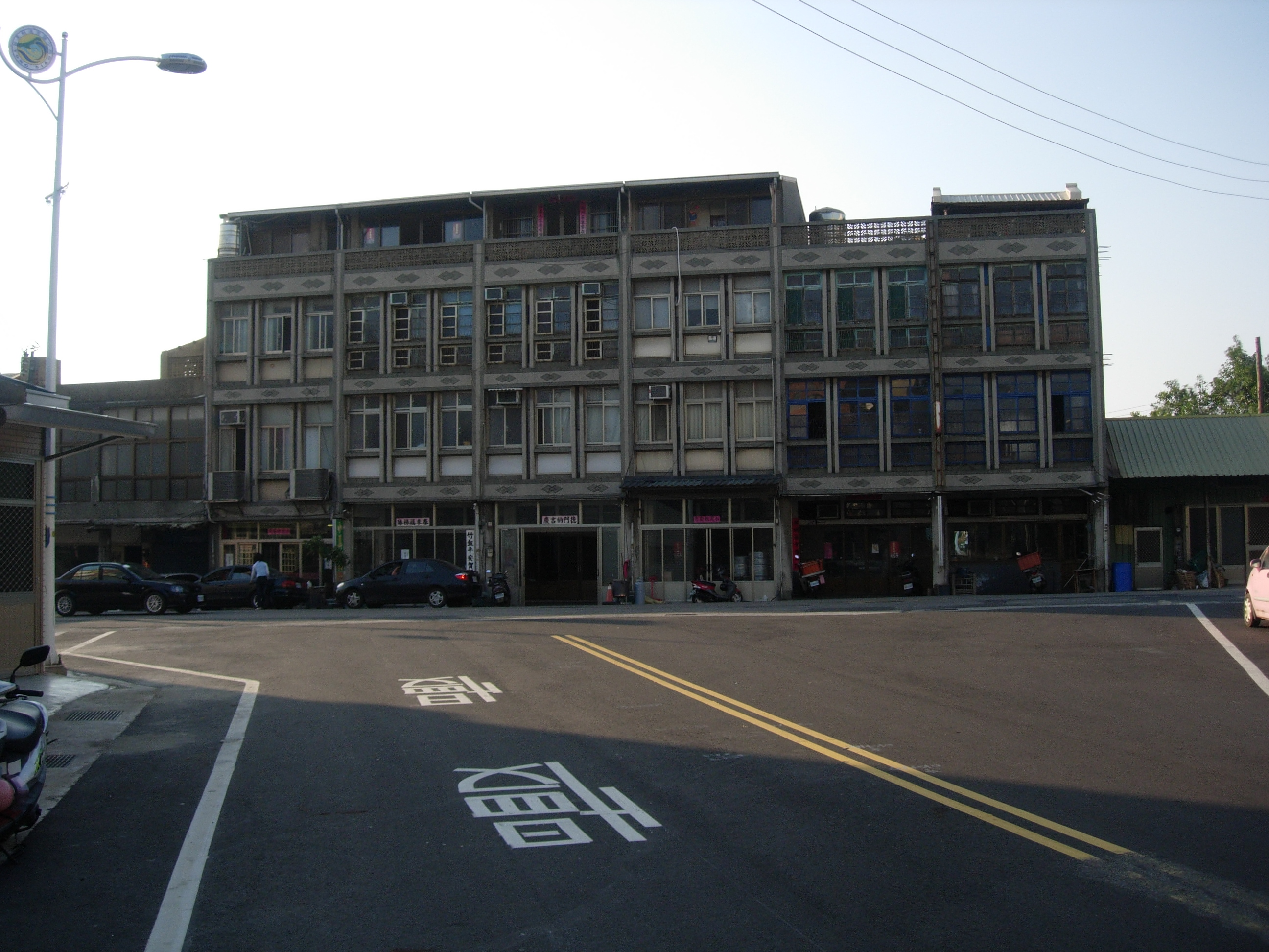 Tungshiau Town House Building